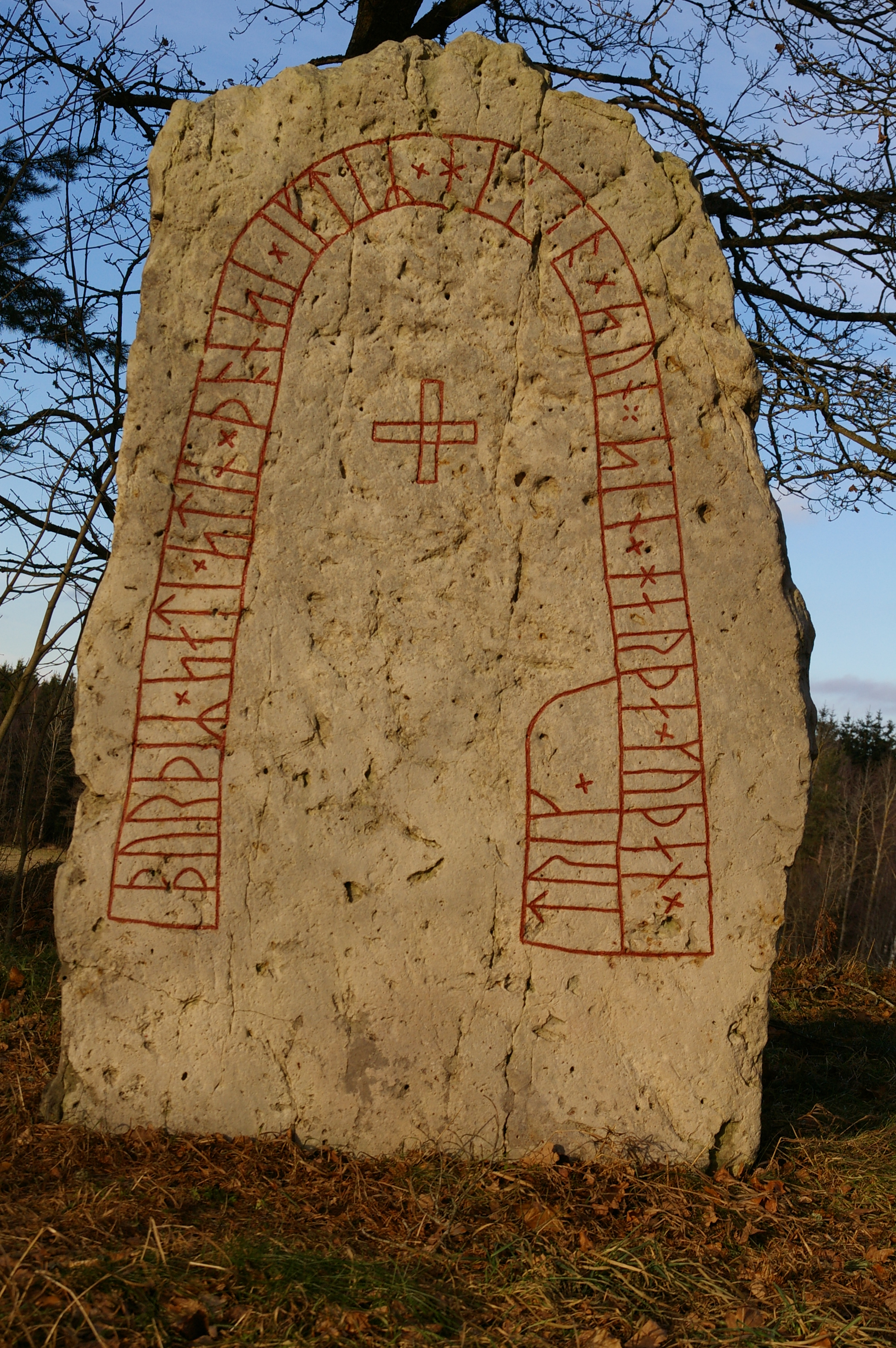 Runestone, Sweden, Västergötland (Vg 90) (Håkantorp 42:2) Torestorp WGS84(58.2429,N13.6014E)